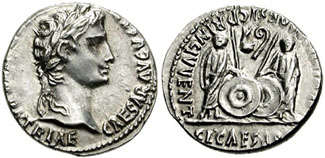 AR Denarius (3.85 gm). Lugdunum (Lyon) mint. Struck 2 BC-14 AD. Laureate head right Gaius and Lucius Caesars standing facing, shields and spears between them; simpulum and lituus above.